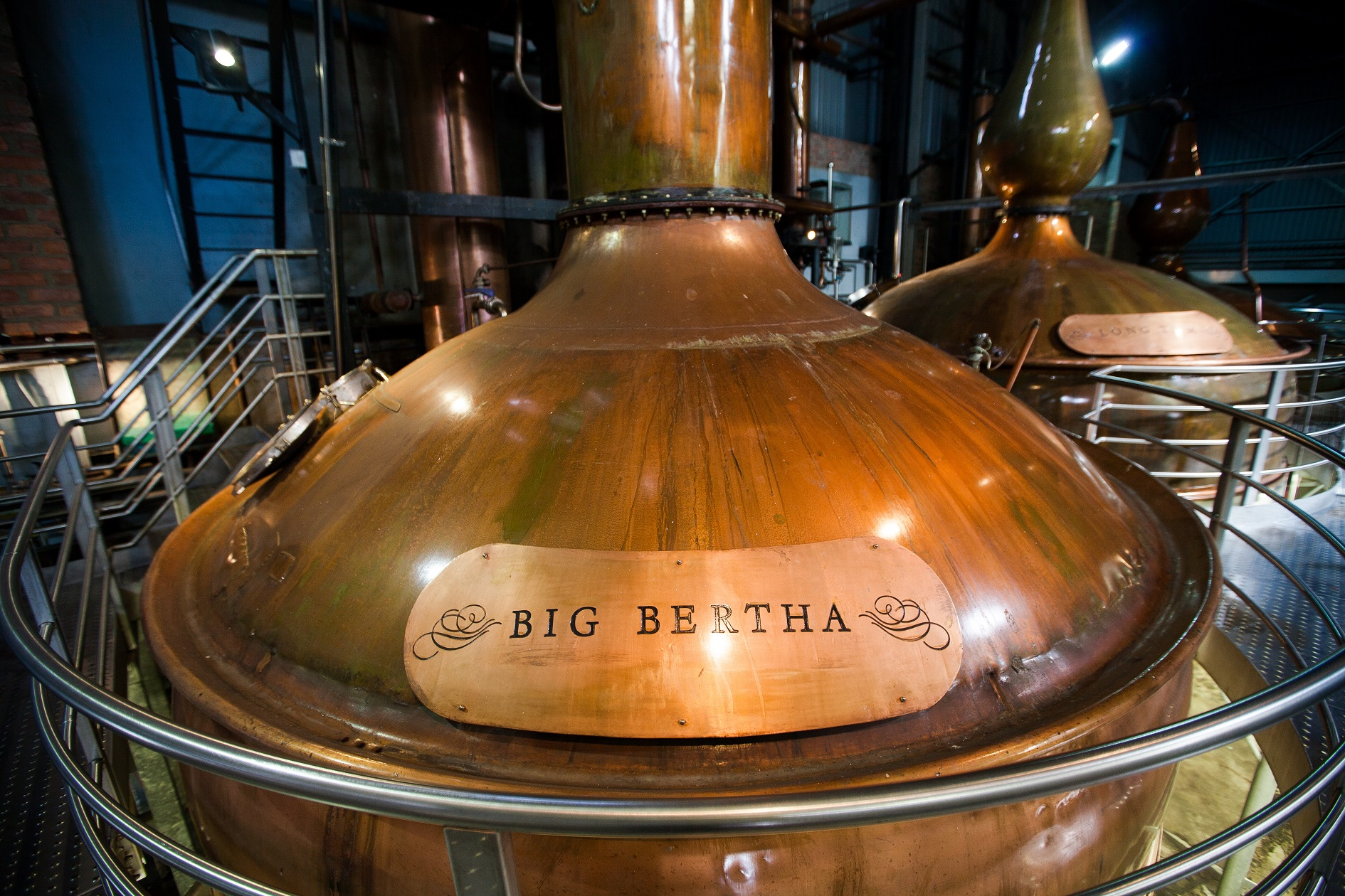 One of the pot stills used for brandy distillation at the Oude Molen Distillery in South Africa.